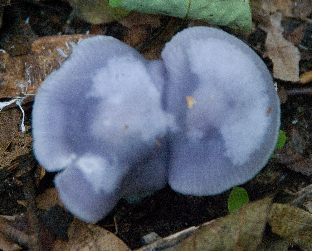 bluish mushrooms, approx 3 cm in smaller diameter